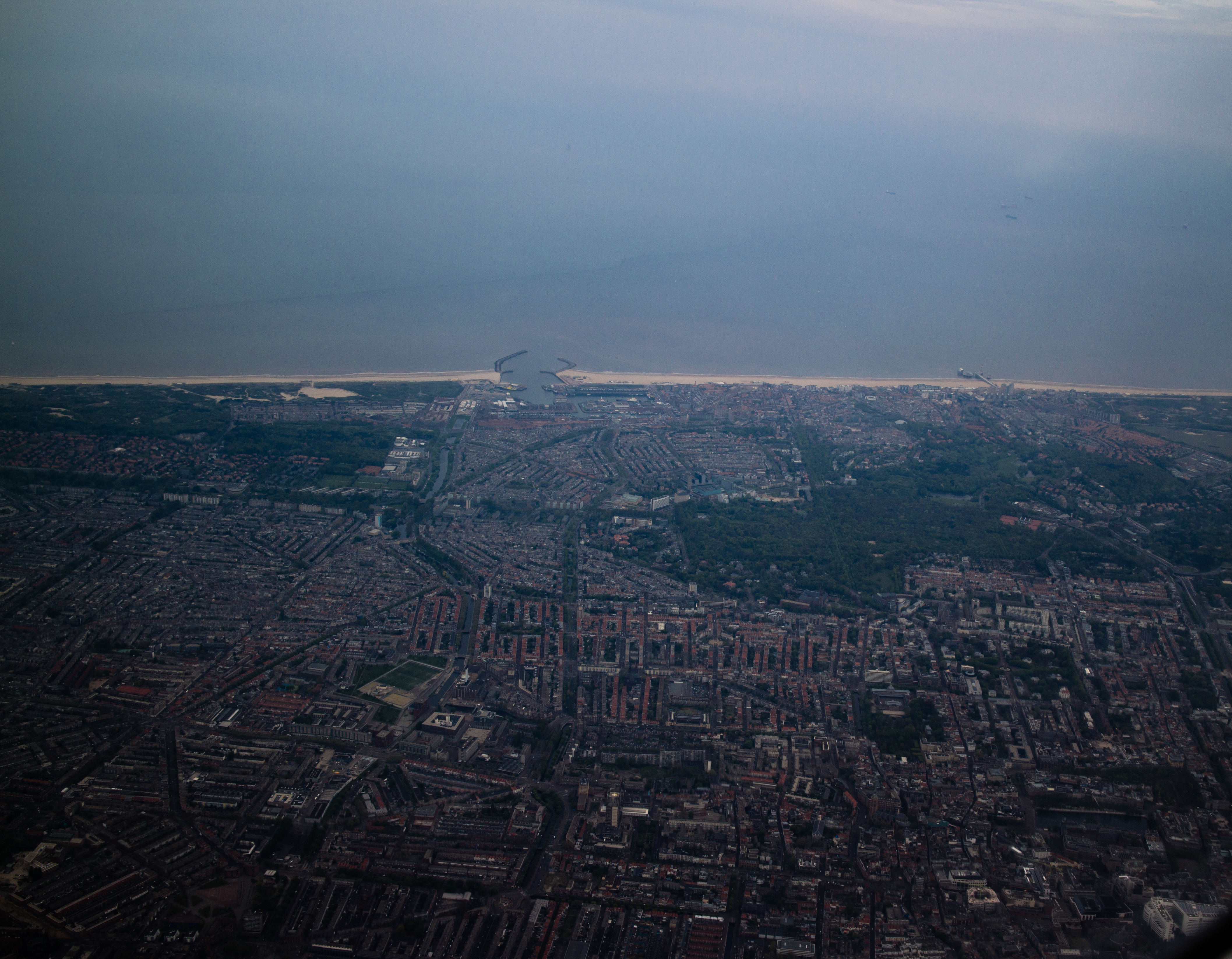 Follow me on facebook Twitter : @didyPhotography All the photographies I've made are now under CC0 (Creative Commons Zero) CC0 - learn more To the extent possible under law, Eddy BERTHIER has waived all copyright and related or neighboring rights to The Hague... from above This work is published from: France.